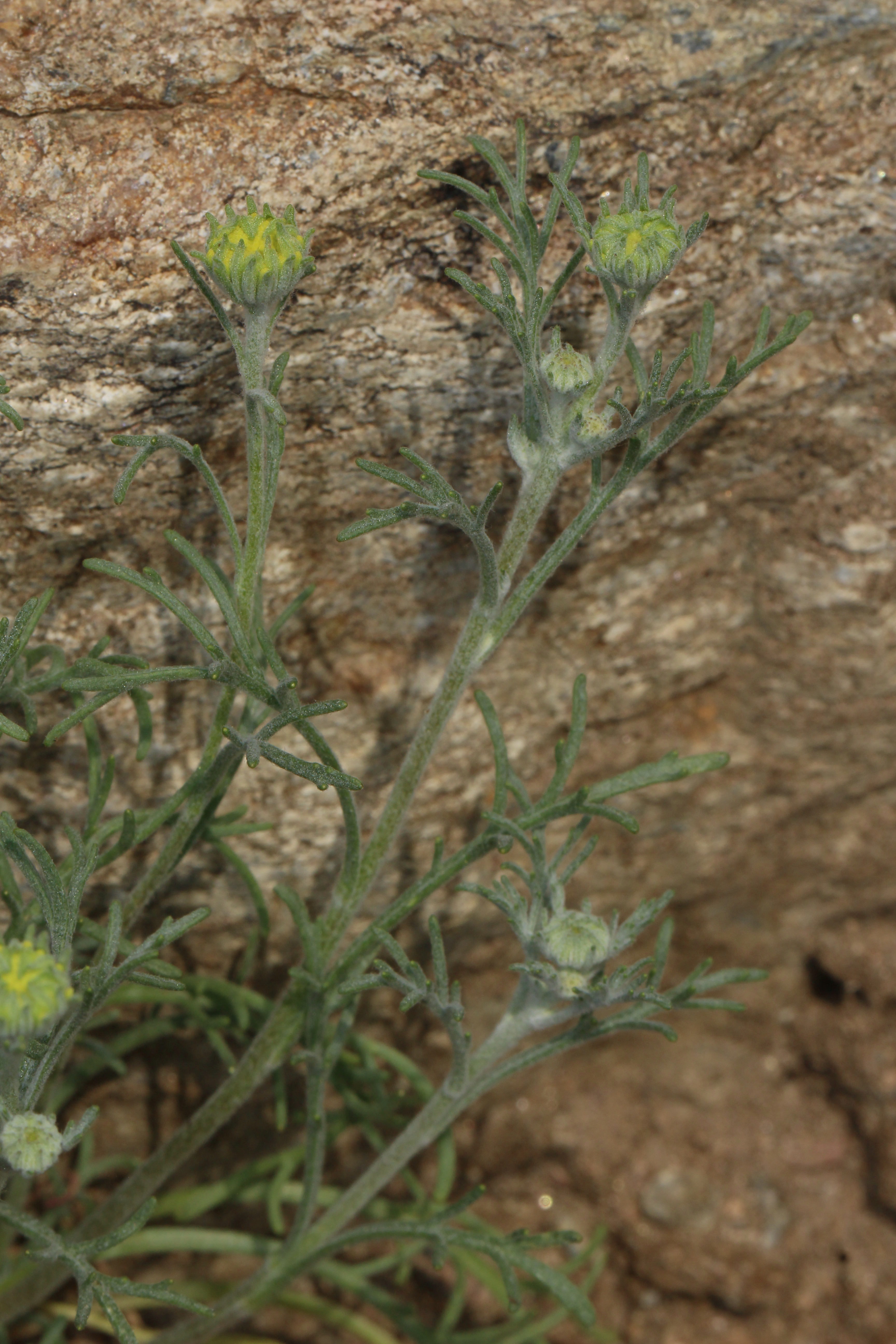 Yellow Pincushion Identification by: Linda Edwards and Vern Benhart Viewpoint location: Dry wash west of Godde Hill Road, 150 m north of Hacienda Ranch Road; Lancaster, California Viewpoint elevation: 949 meter (3113 ft) Location source: Garmin GPSmap 60CSx Location Datum: WGS84